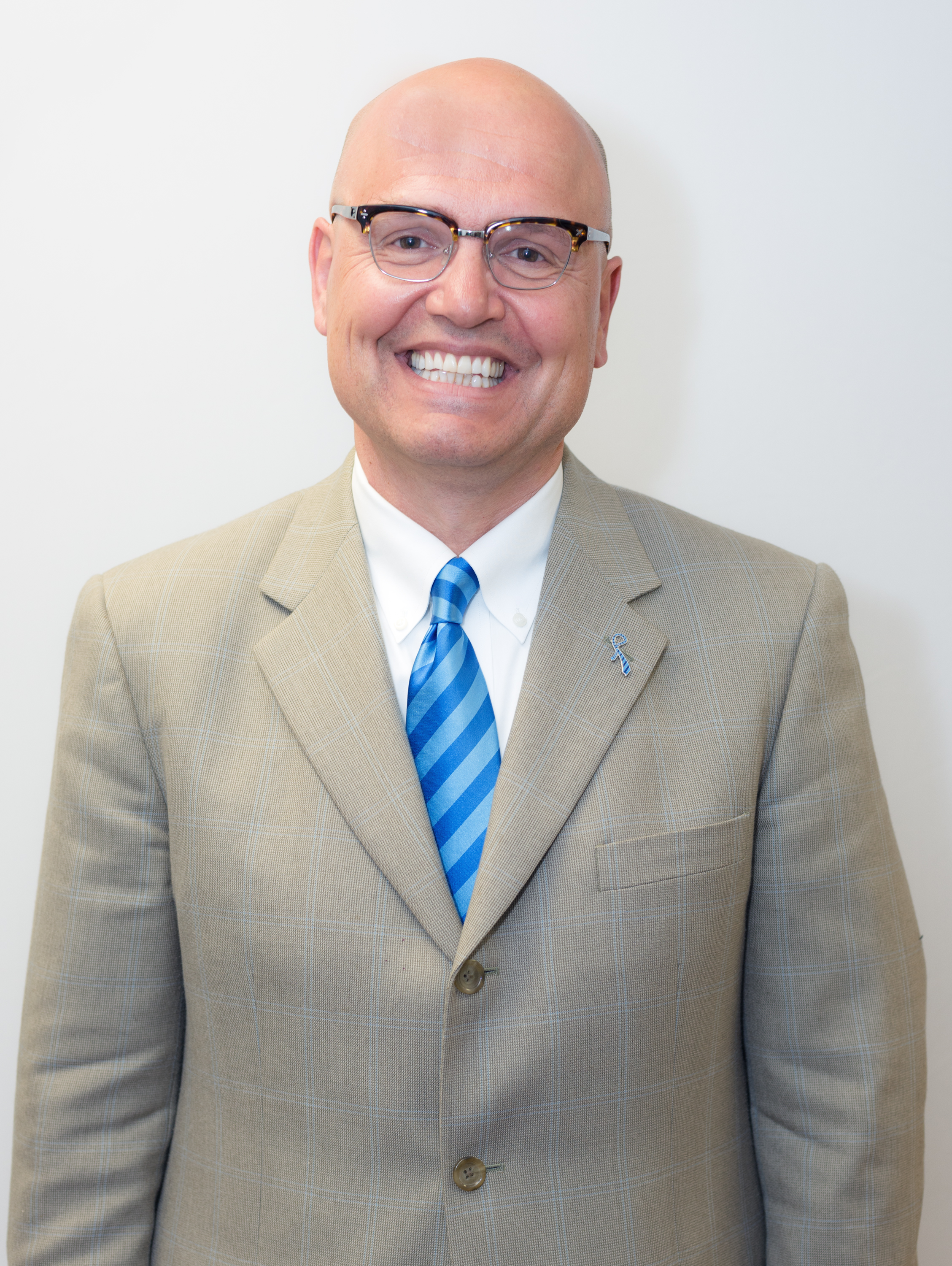 Rocco Rossi donning his Prostate Cancer Canada tie.